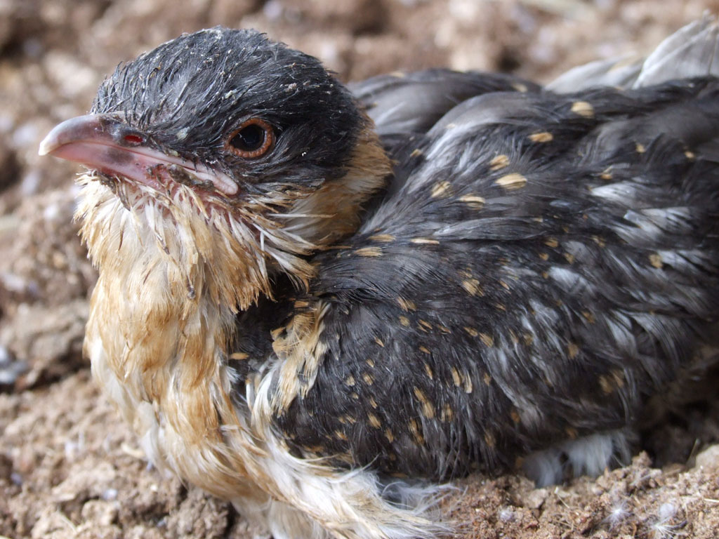 Clamator glandarius, Great Spotted Cuckoo